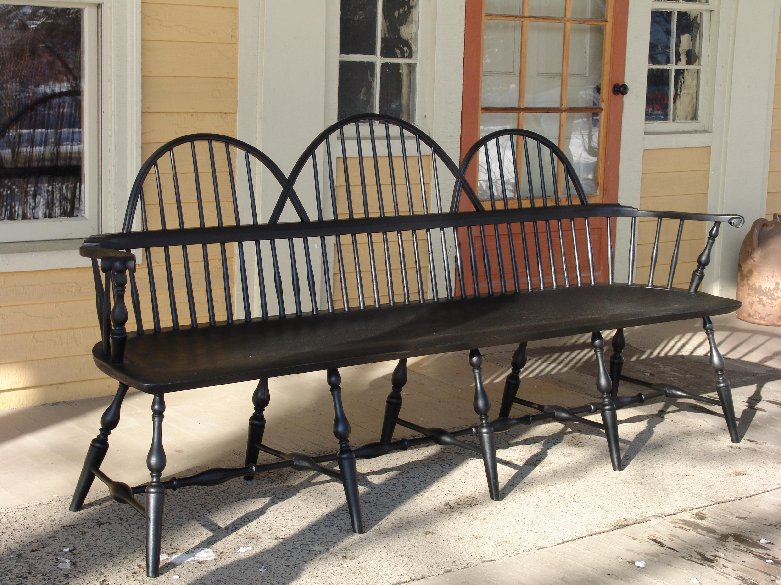 A rare form in the Windsor chair family, this Settee design was found in the last quarter of the 18th Century. Built by Chelsea,Vermont Chairmaker Michael W. Tulloch in 2004.